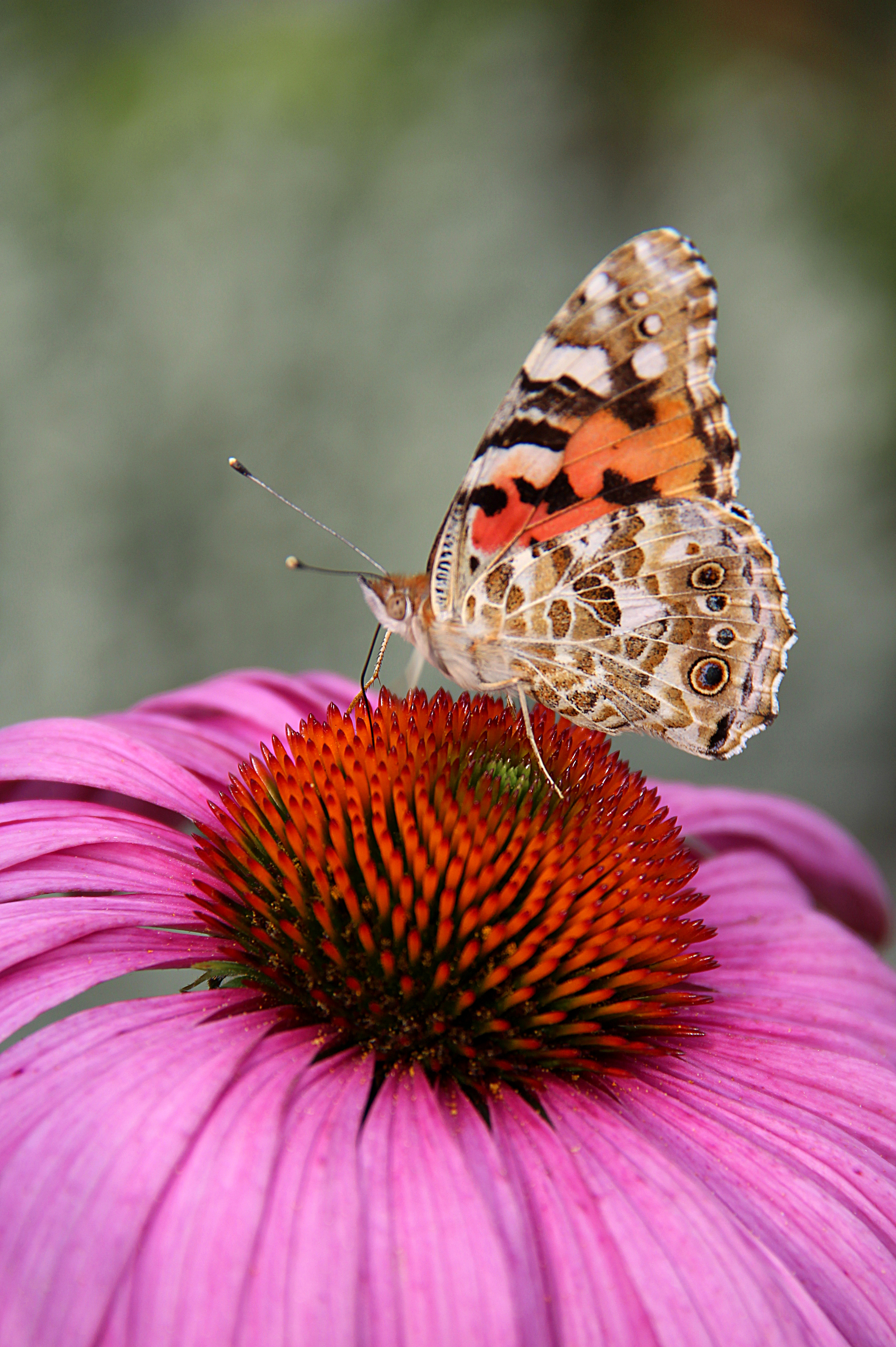 Painted Lady (Vanessa cardui) foraging a flower of a purple coneflower (Echinacea purpurea) - Havré (Belgium)